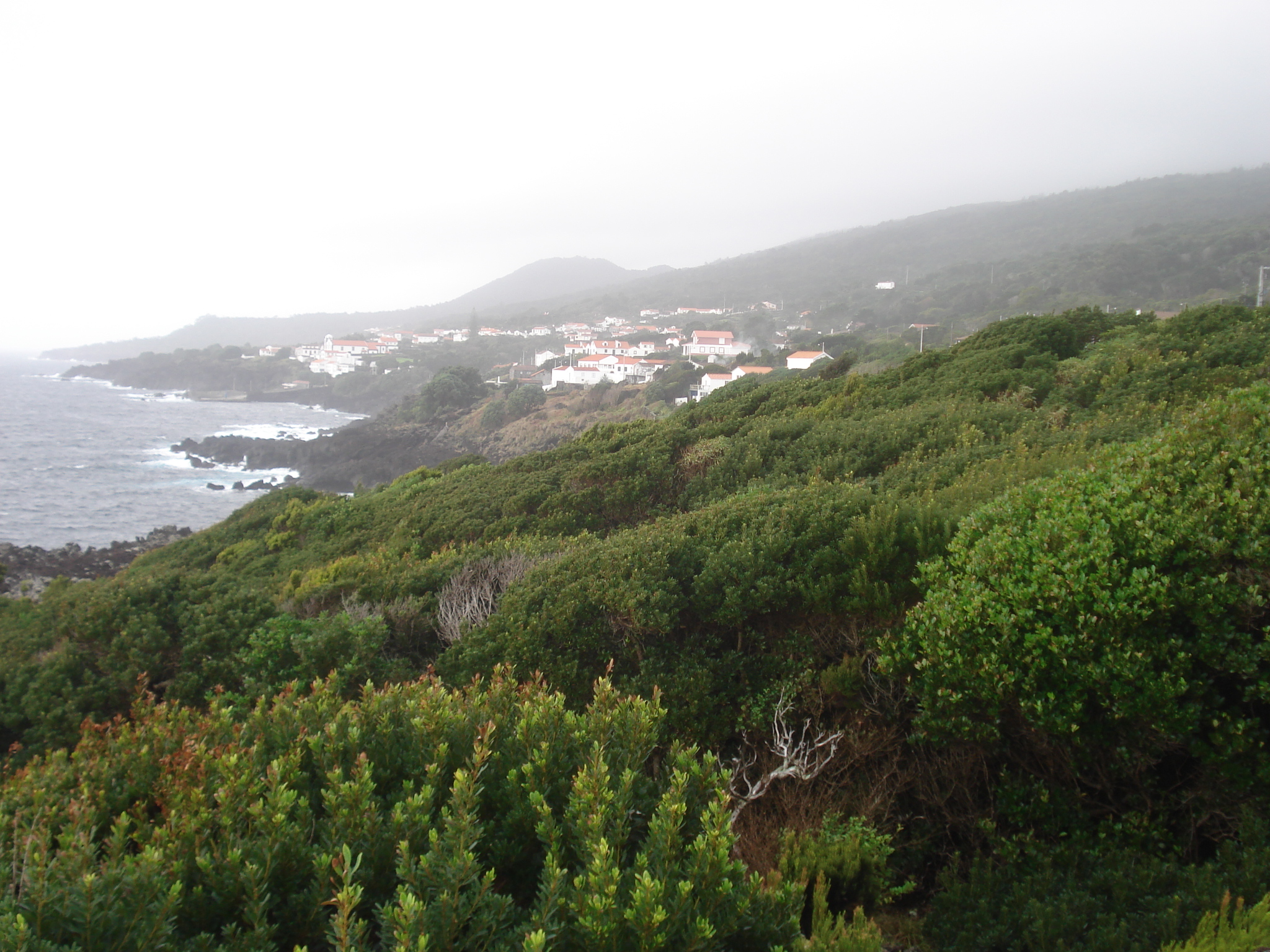 The coast of Pico Island, with the civil parish of São Caetano in the distance.